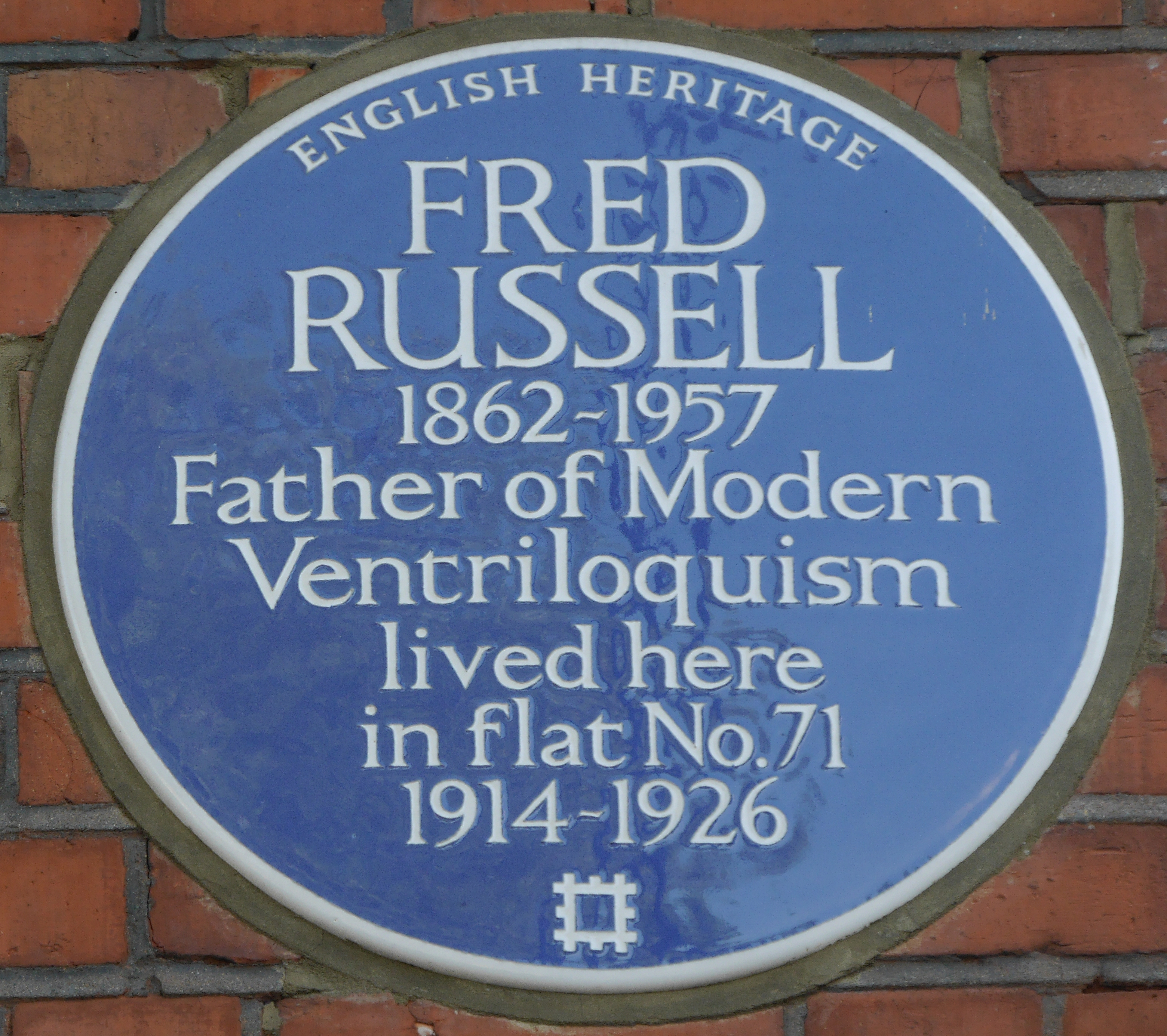 Fred Russell Blue Plaque, Puntey, London